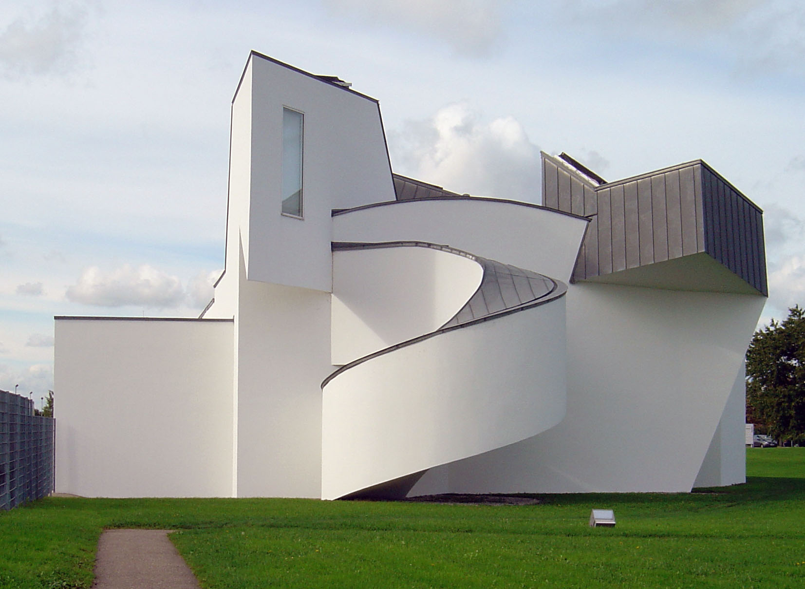 Vitra Design Museum building by Frank O. Gehry, Weil am Rhein, Germany.